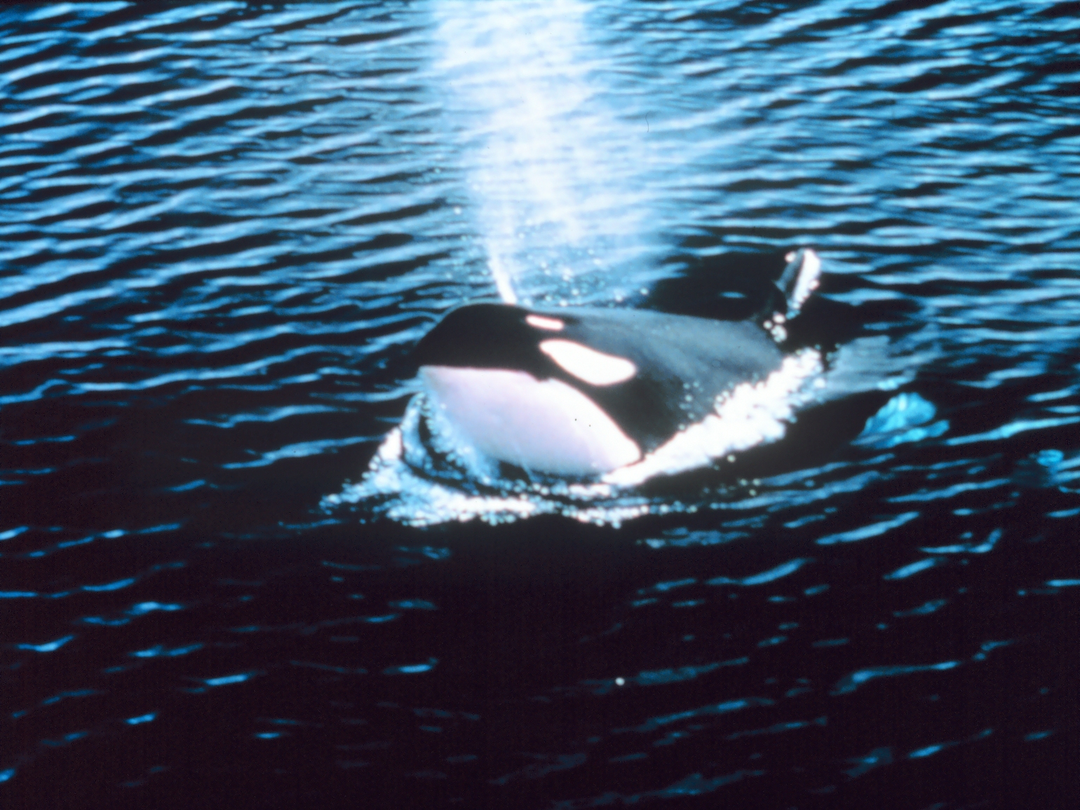 Killer whale blowing